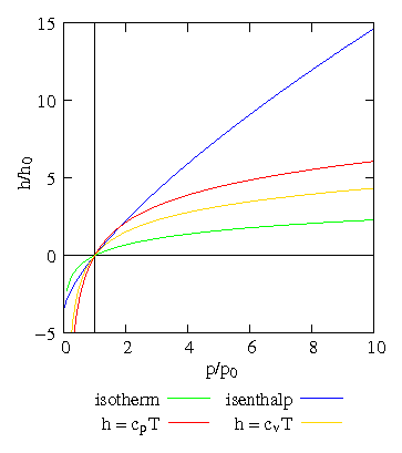 Enthalpy of air as an ideal gas under Standard conditions for temperature and pressure calculated from different formulas.